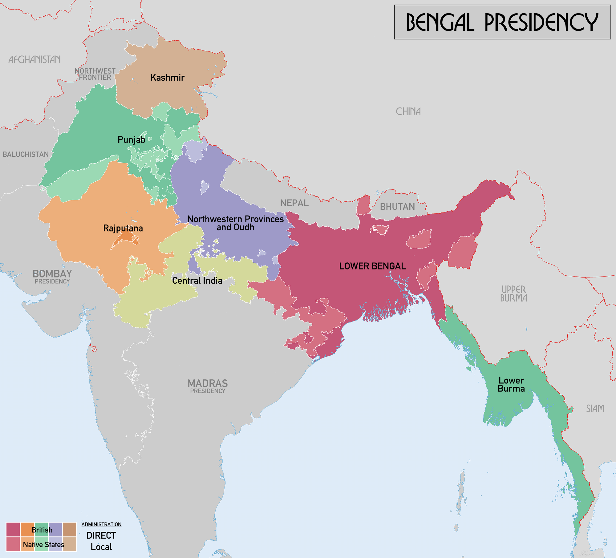 Map of the Bengal Presidency in 1858. Administrative map of British India's Bengal Province in 1931. Source data: Survey of India 1:253k (Perry-Castenada Map Library, Univ of Texas), India 1:1M, Imperial Gazetteer of India 1:4M (Digital South Asia Library, Univ of Chicago).